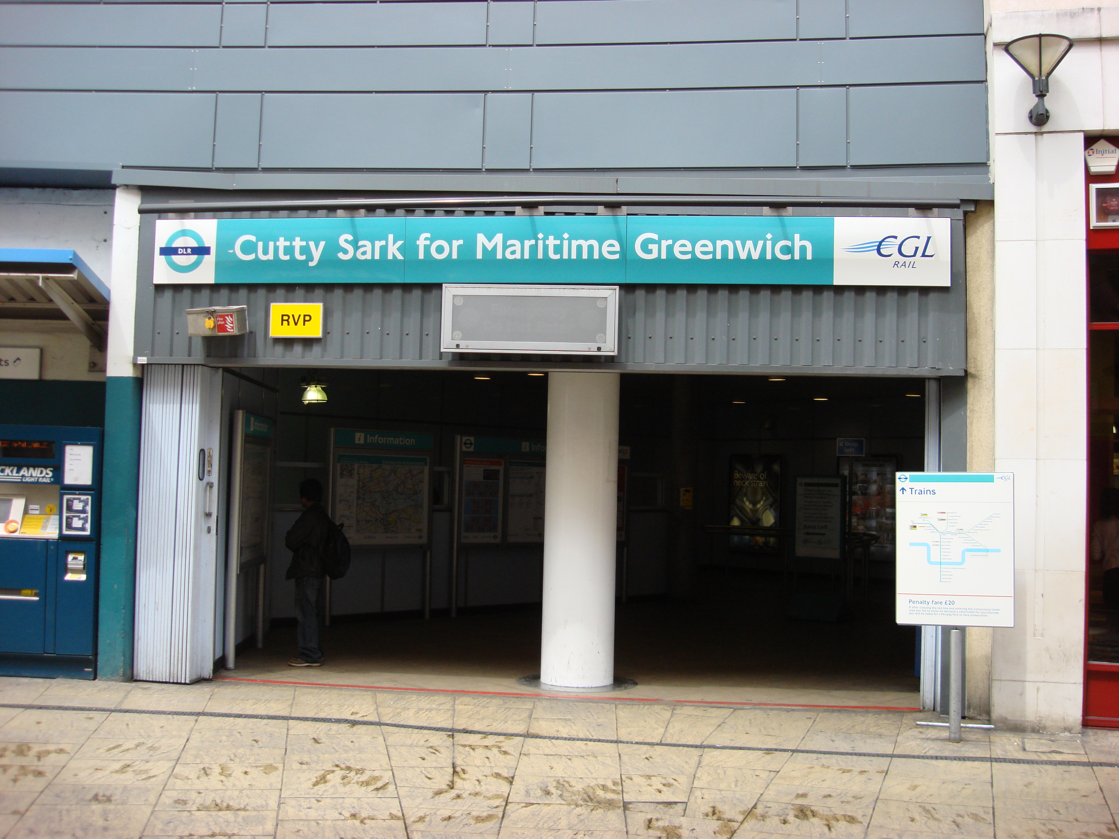 Entrance to Cutty Sark DLR station